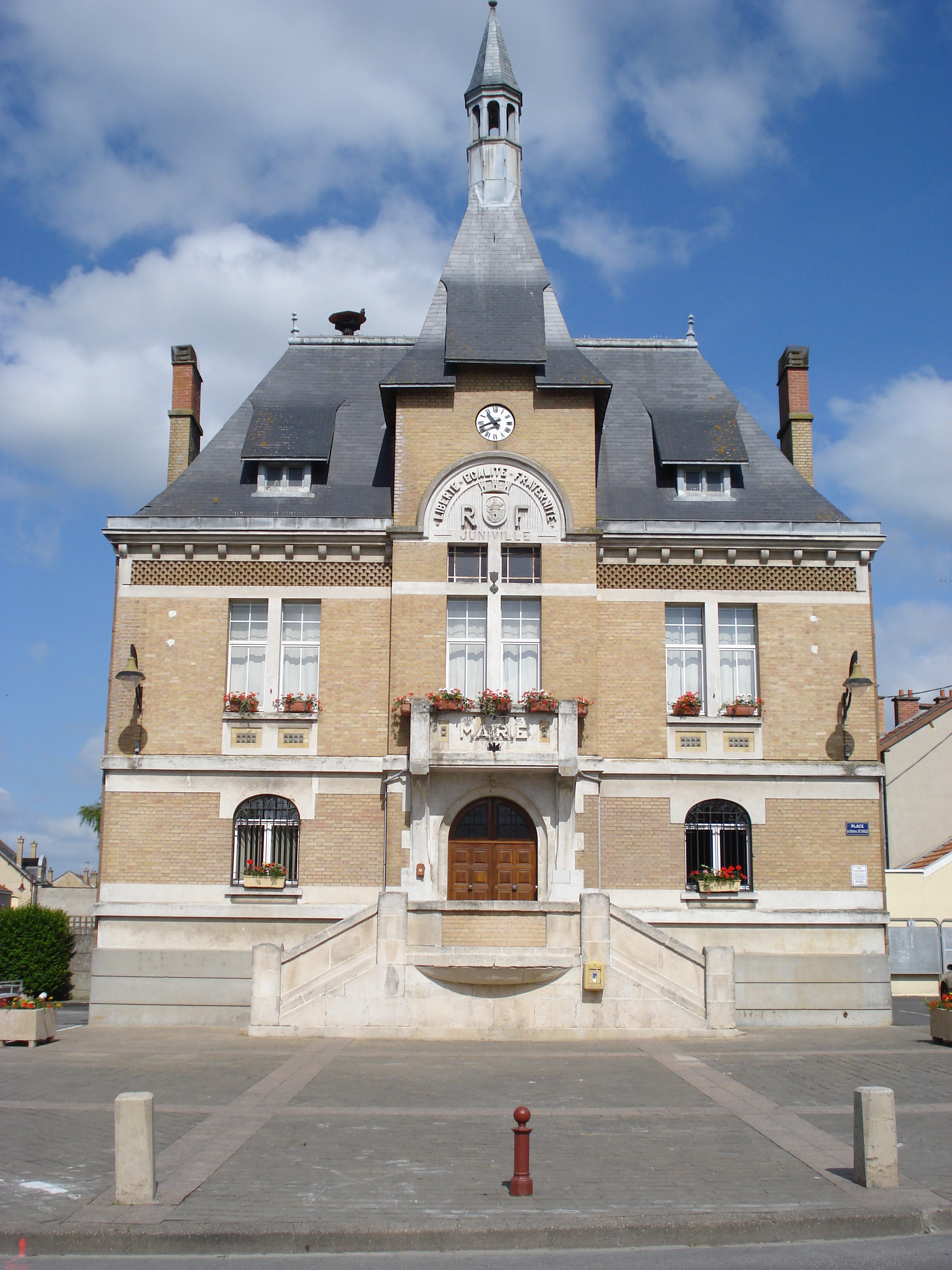 Juniville (Ardennes, Fr) Hotel de ville.